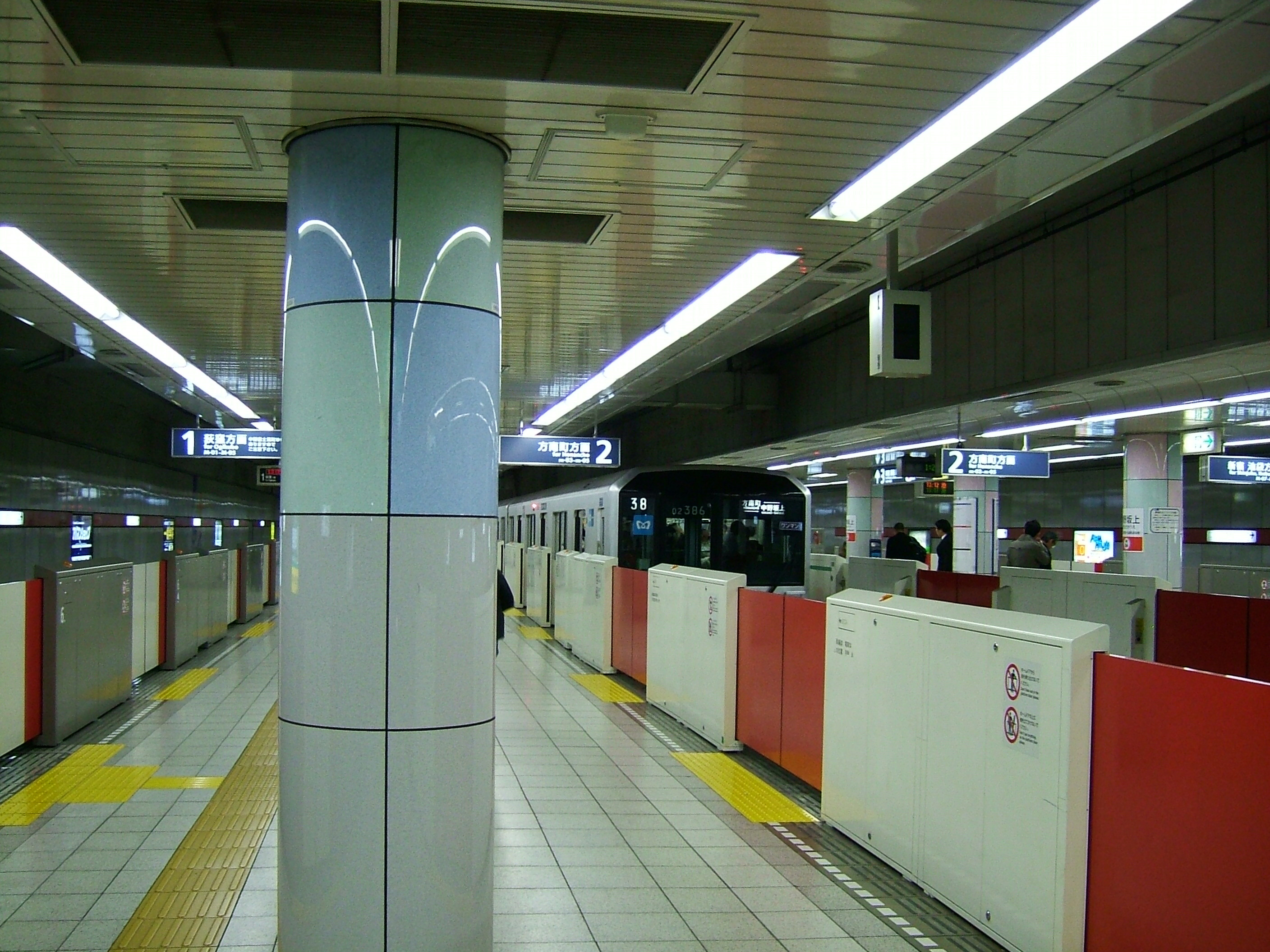 Nakano Sakaue Station platform (Tokyo Metro Marunouchi Line)